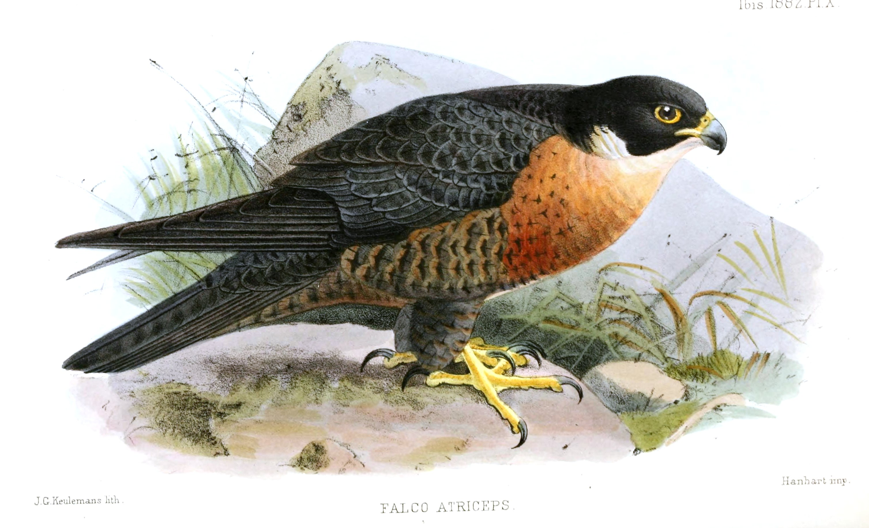 « Falco atriceps » = Falco peregrinus peregrinator (Subspecies of Peregrine falcon) - ???